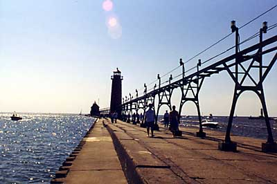 Grand Haven Lighthouses: The rear lighthouse in Grand Haven, Michigan, USA